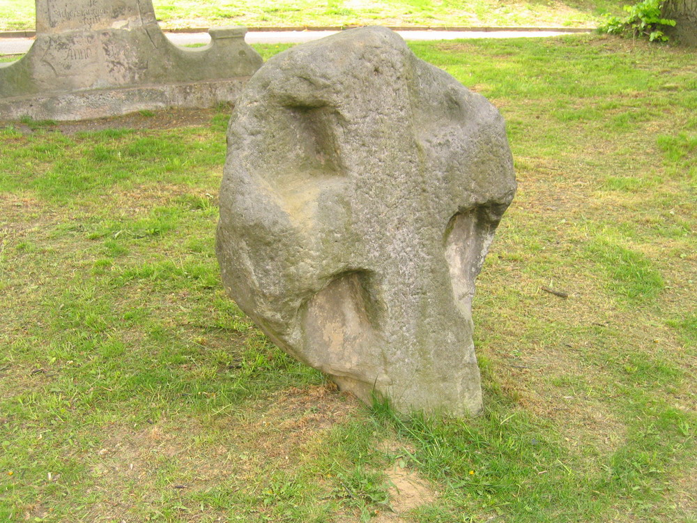 Penitence cross next to church of the Trnsfiguration in Velichovky, Náchod District, Czech Republic.